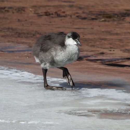 Giant Coot (Young) at River Putana, San Pedro de Atacama, Chile